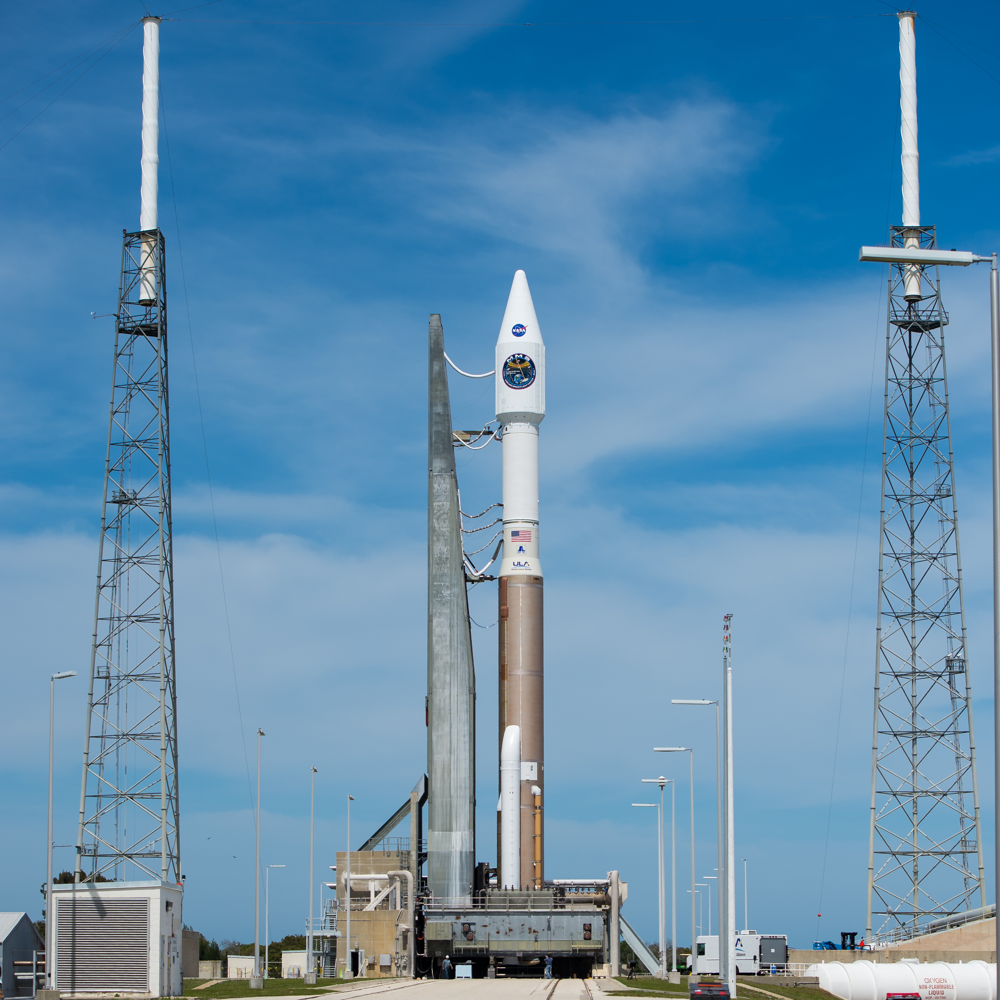 The United Launch Alliance Atlas V rocket with NASA’s Magnetospheric Multiscale (MMS) spacecraft onboard is seen on the launch pad at the Cape Canaveral Air Force Station Space Launch Complex 41, Thursday, March 12, 2015 in Florida. Launch of the Atlas V rocket will carry the four identical MMS spacecraft into orbit to provide the first three-dimensional view of magnetic reconnection. Photo Credit: (NASA/Aubrey Gemignani)